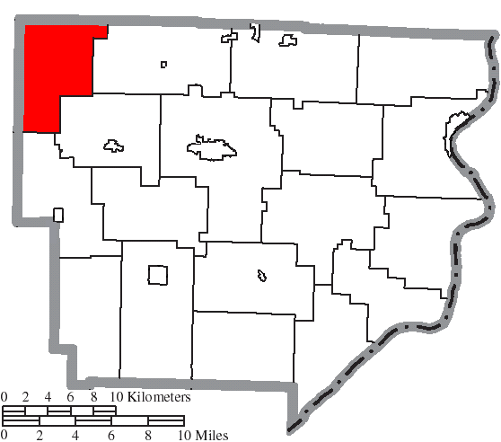 Map of the municipal and township boundaries of Monroe County, Ohio, United States, as of the 2000 census, with the location of Seneca Township highlighted. Township borders are shown only in unincorporated areas in order to differentiate incorporated and unincorporated areas more clearly.